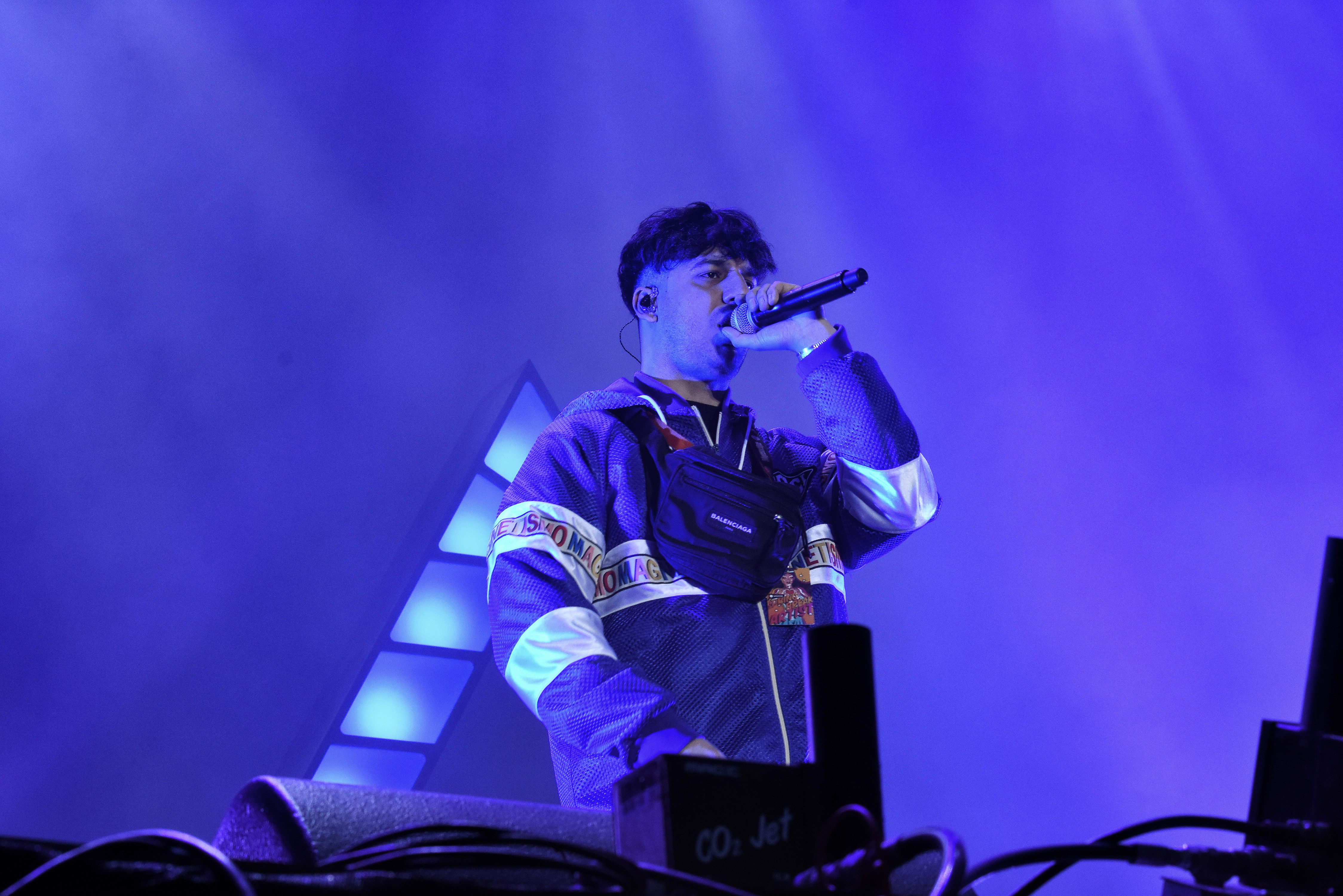 German Rapper Ufo361 at Sputnik Spring Break 2018